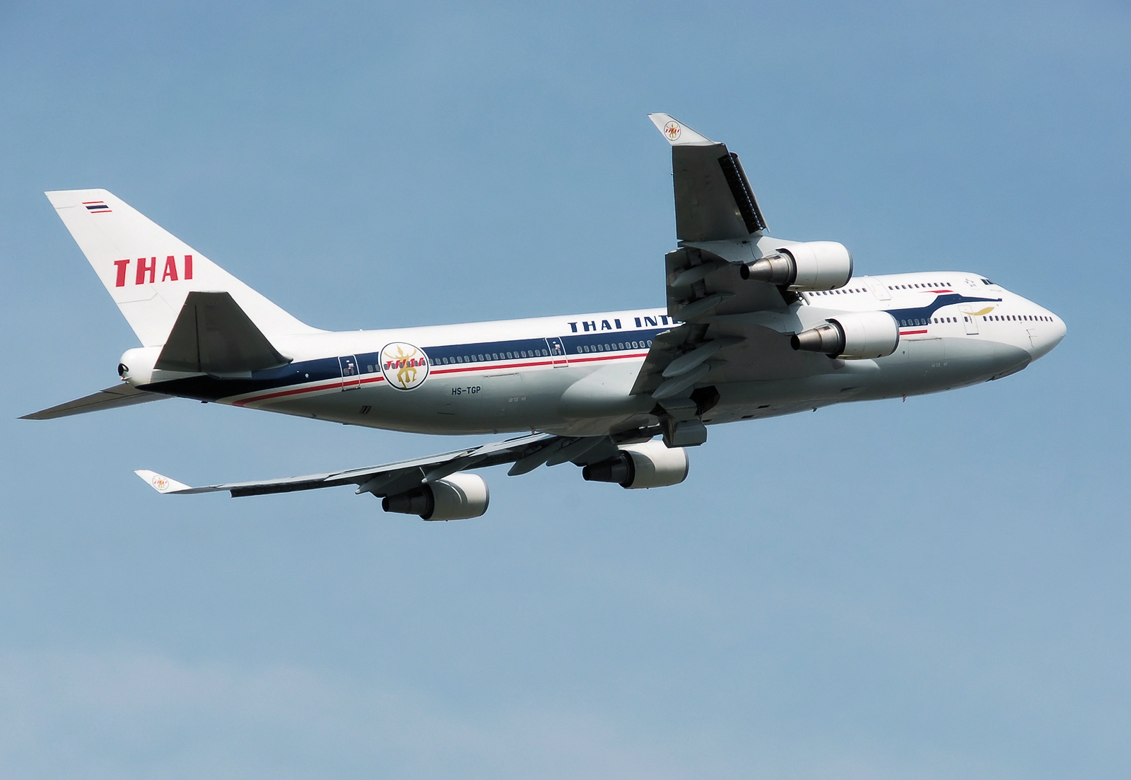 Thai Airways Boeing 747-400 (HS-TGP) takes off from London Heathrow Airport, England, with main undercarriage doors still closing. The aircraft is painted in the 1960 livery, to commemorate the 50th year of operation of Thai Airways.